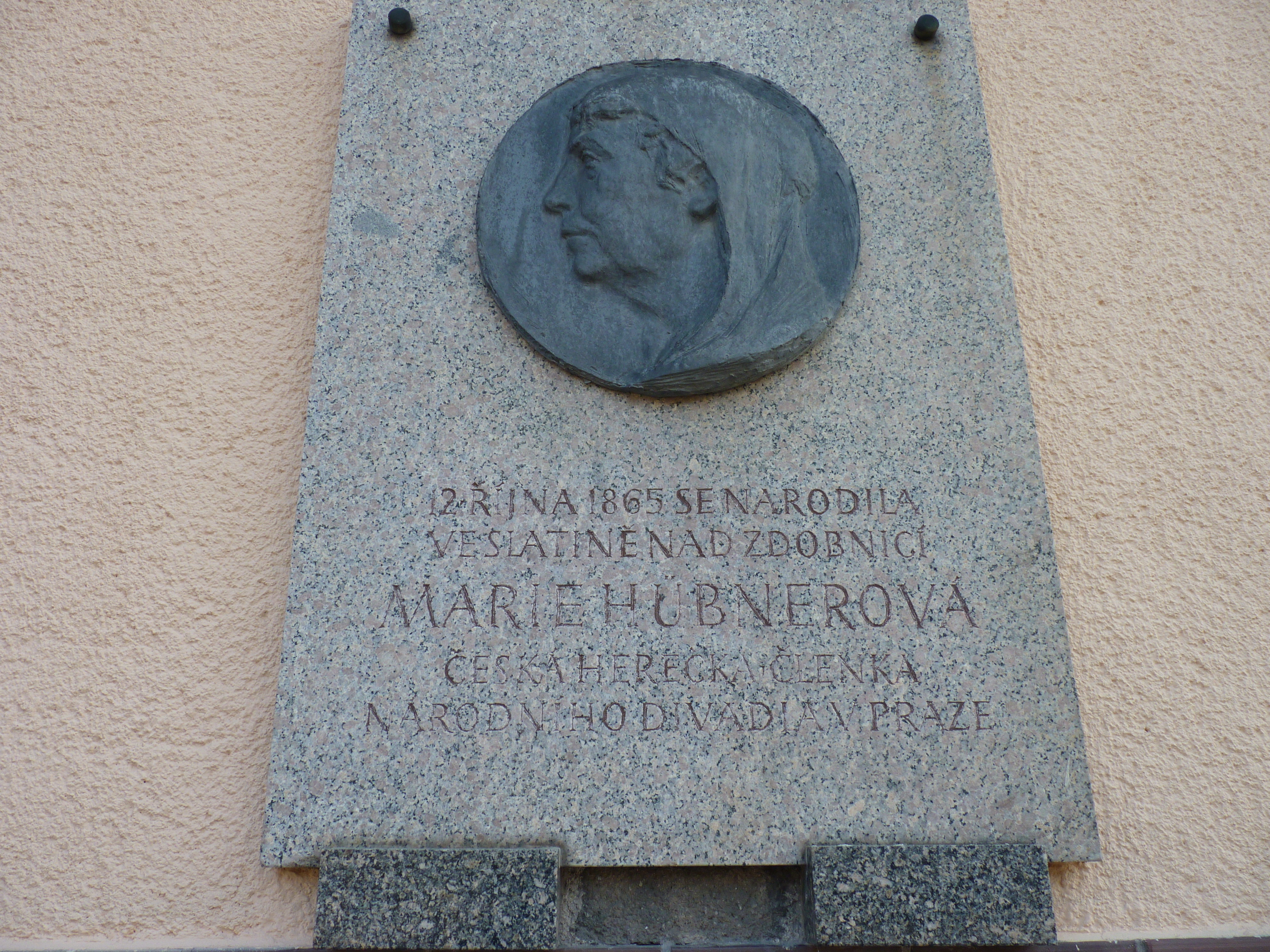 Czech actress Marie Hübnerová (1865-1931).